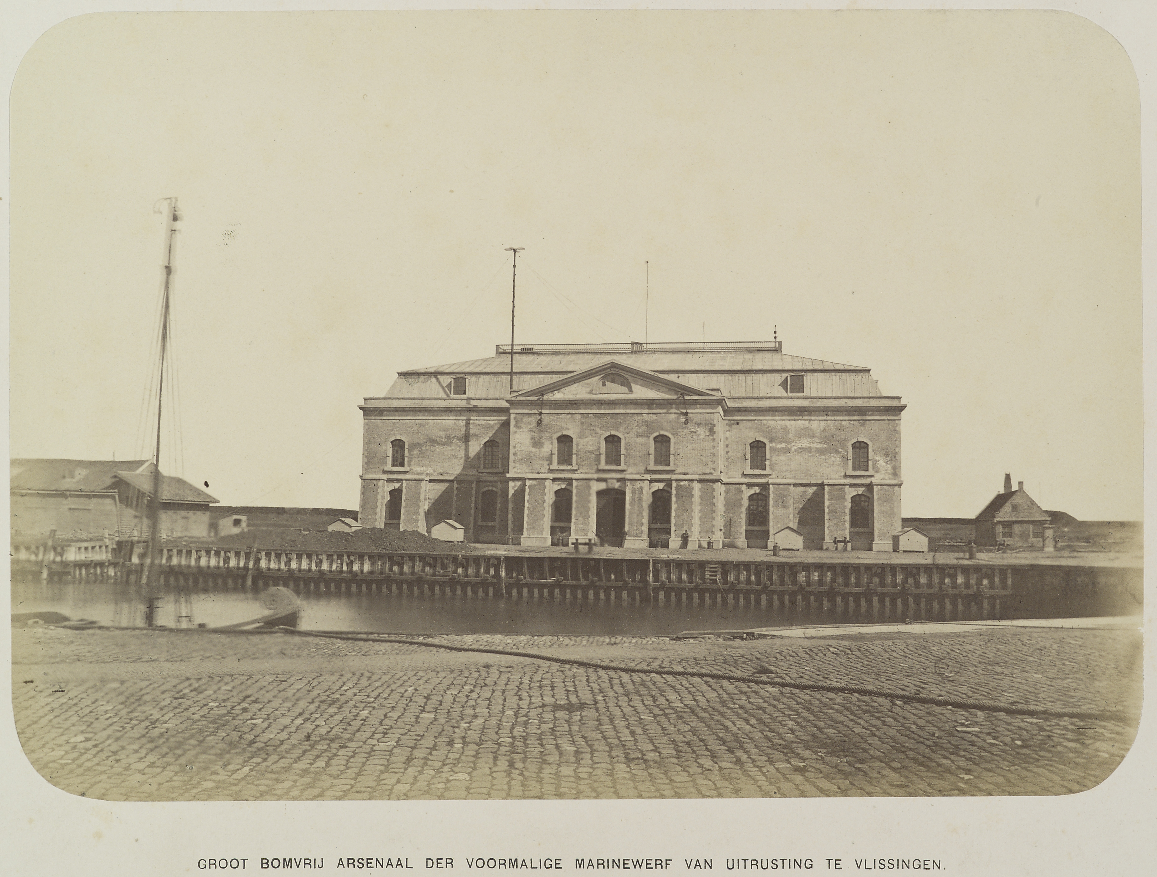 Overview of the front of the bomb-free arsenal of Vlissingen also known as Zeemagazijn.